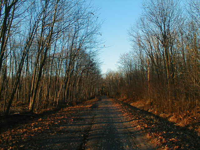 Boy Scout Lane, Linwood, Wisconsin Craig M. Groshek